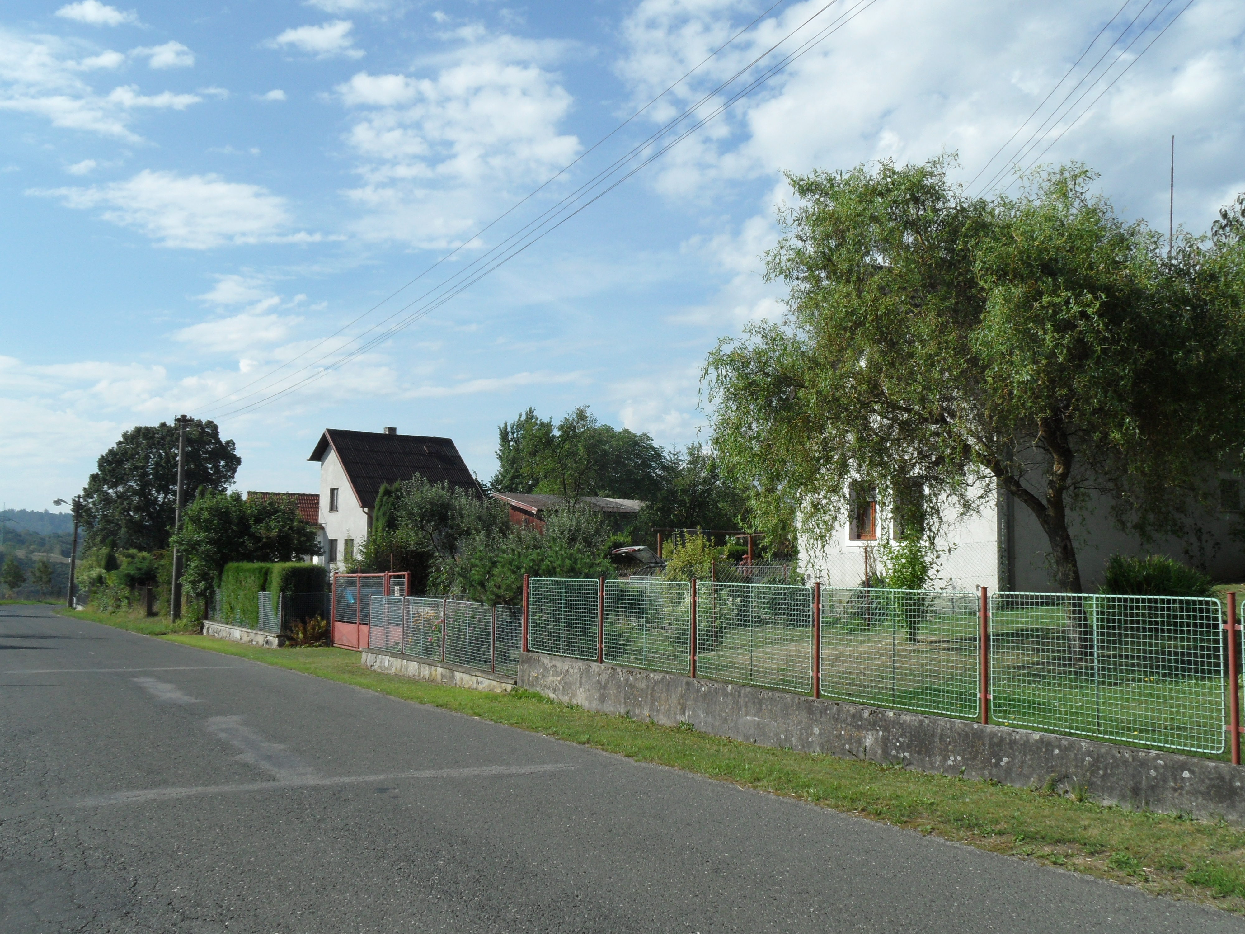 Věžníkov A. Houses along the Main Road, Kutná Hora District, the Czech Republic.